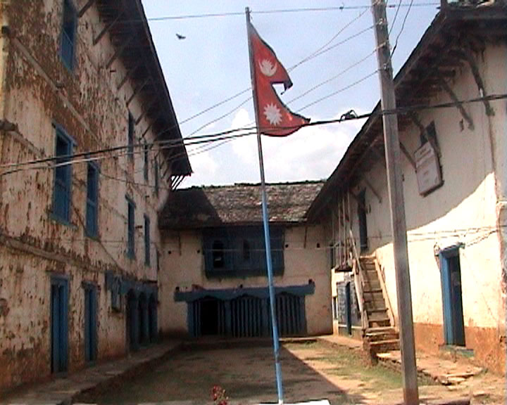 DAO of jajarkot district in Nepal